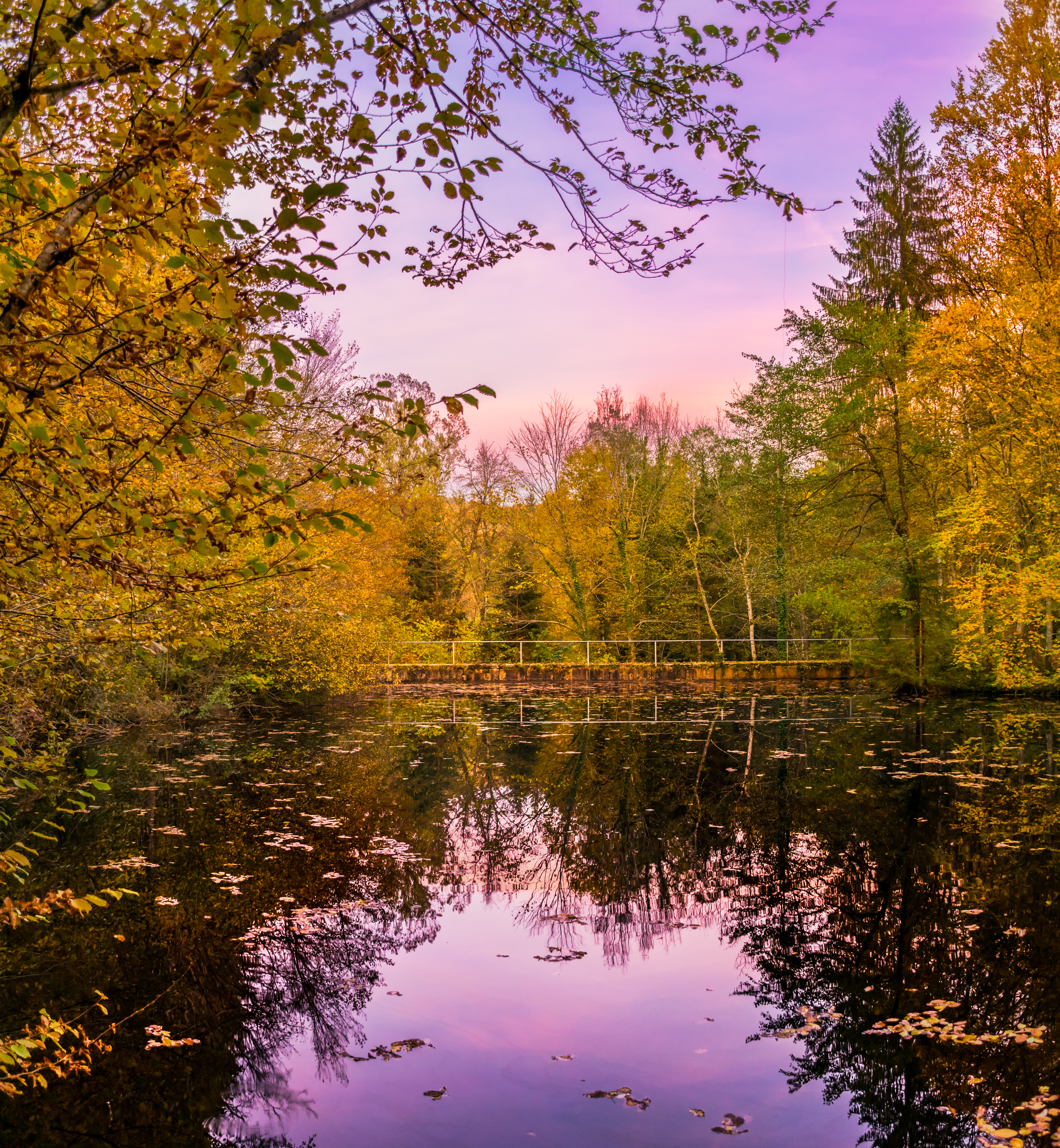 North and south of the village of Potoki, there are two small dolomite ravines with flowing water. In the southern ravine there is the spring of Bajer, which is dammed as shown in the picture. The overflow goes into an abyss of limestone and dolomite about 100m lower. The water from the dam, together with water from a nearby secondary source, was used to supply locomotives with water in the last century. It has been proven that the water from Bajer flows into the river Krupa via underground. Bajer is listed as an ecosystem of significant hydrological, zoological and local value and is therefore protected by law. Interesting fact: A direct translation of "Bajer" into English means "Pond".